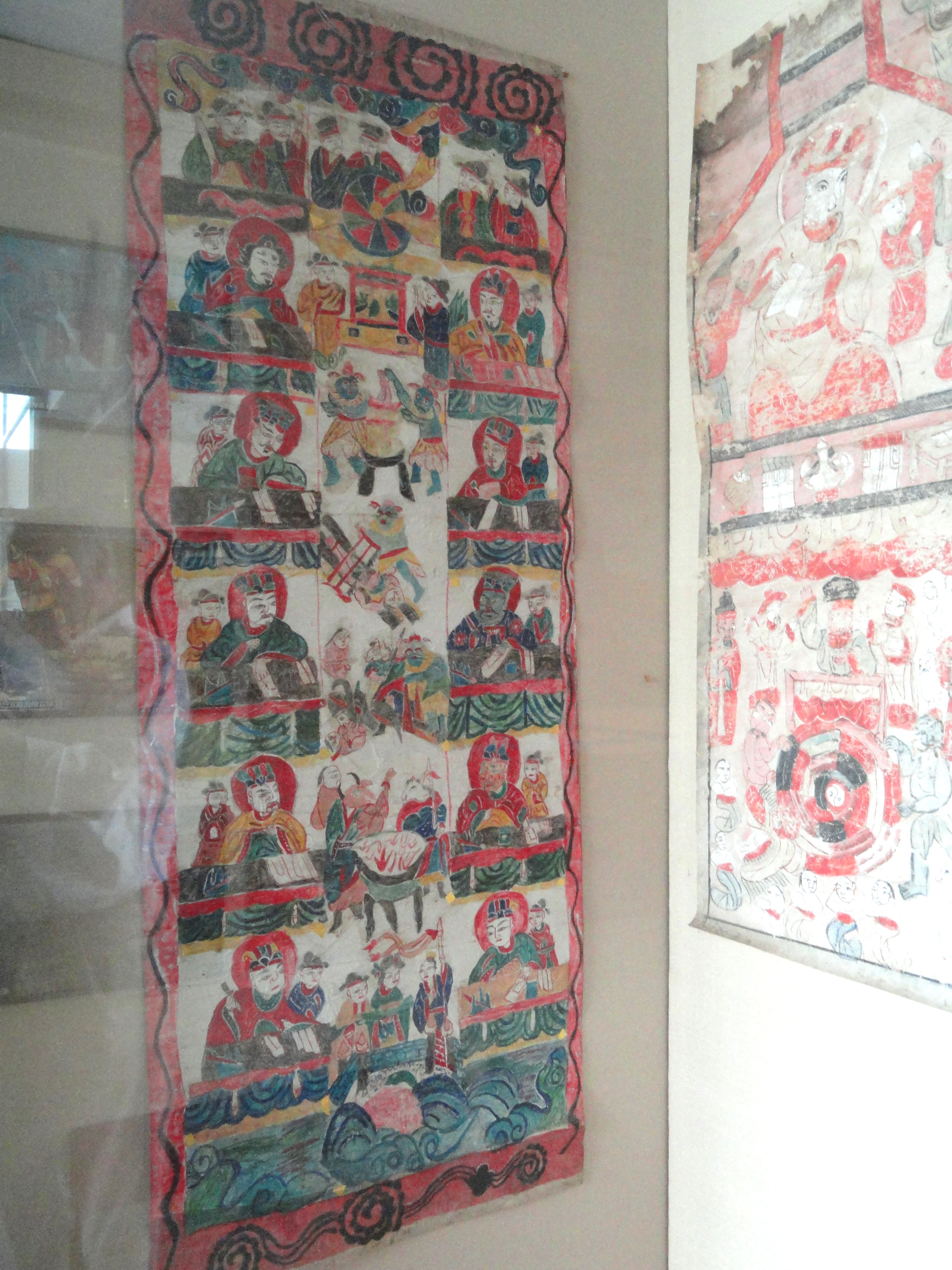 Zhuang painting of Taoist "megong". Folk Arts in the Yunnan Nationalities Museum, Kunming, Yunnan, China.